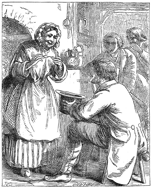 From 'Andersens Sproken en vertellingen' by Hans Christian Andersen, Titia van der Tuuk (ed.) and Simon Jacob Andriessen (trans.). Gebroeders E. & M. Cohen, Nijmegen - Arnhem. Illustrated by Alfred Walter Bayes (1832-1909) and engraved by the Dalziel Brothers (Edward Daziel, 1817-1905; George Daziel, 1815-1902).